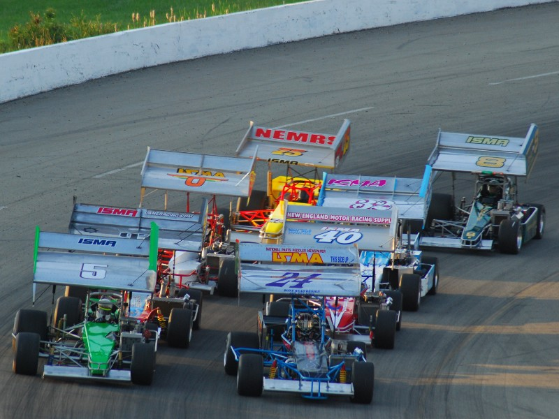 ISMA Modified drivers coming out of turn 4 at Jennerstown Speedway. Jennerstown PA.